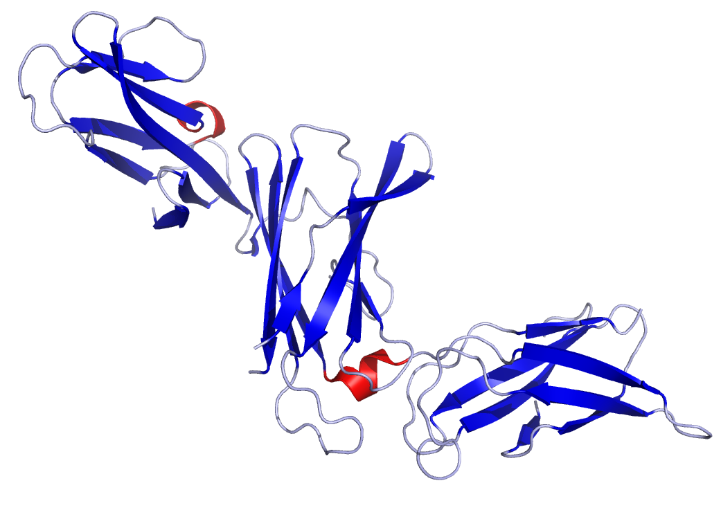 Crystal structure of IL-12b as published in the Protein Data Bank (PDB: 1F42)